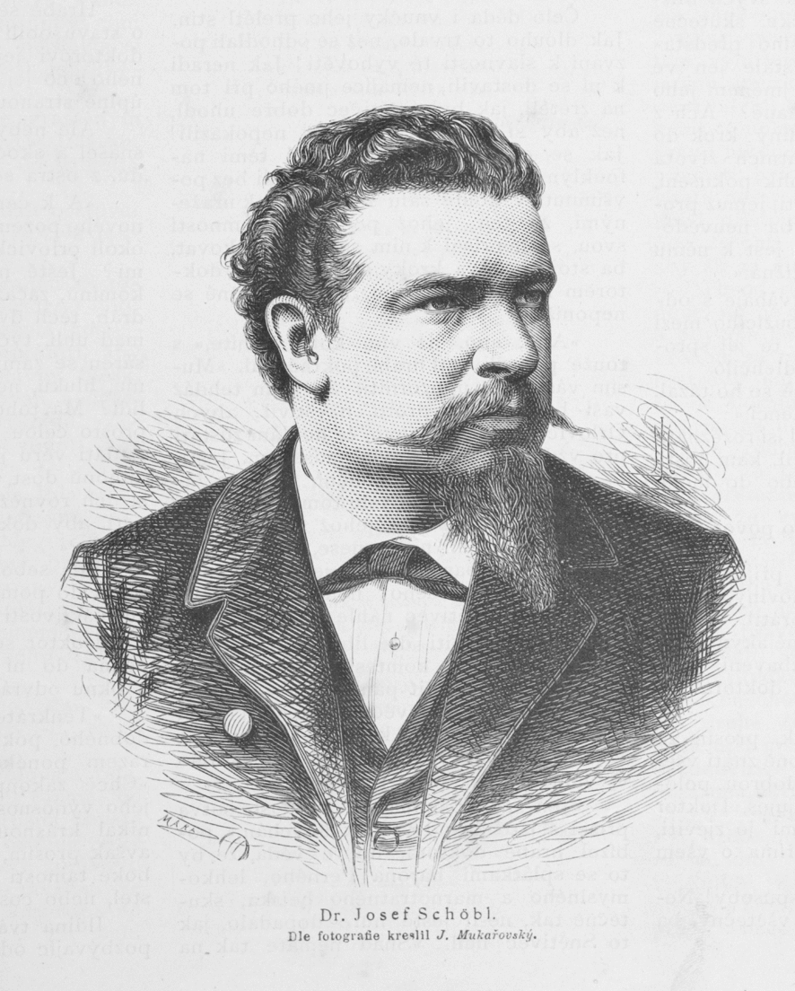 Portrait of Josef Schöbl (1837-1902), Czech professor of ophtalmology, also active as a zoologist.